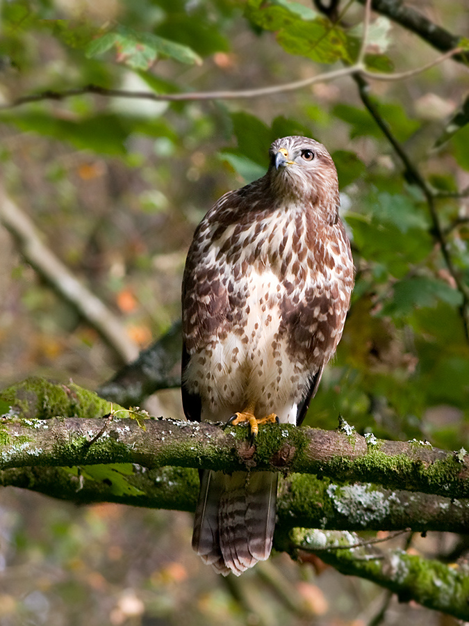 A Common Buzzard in Scotland.